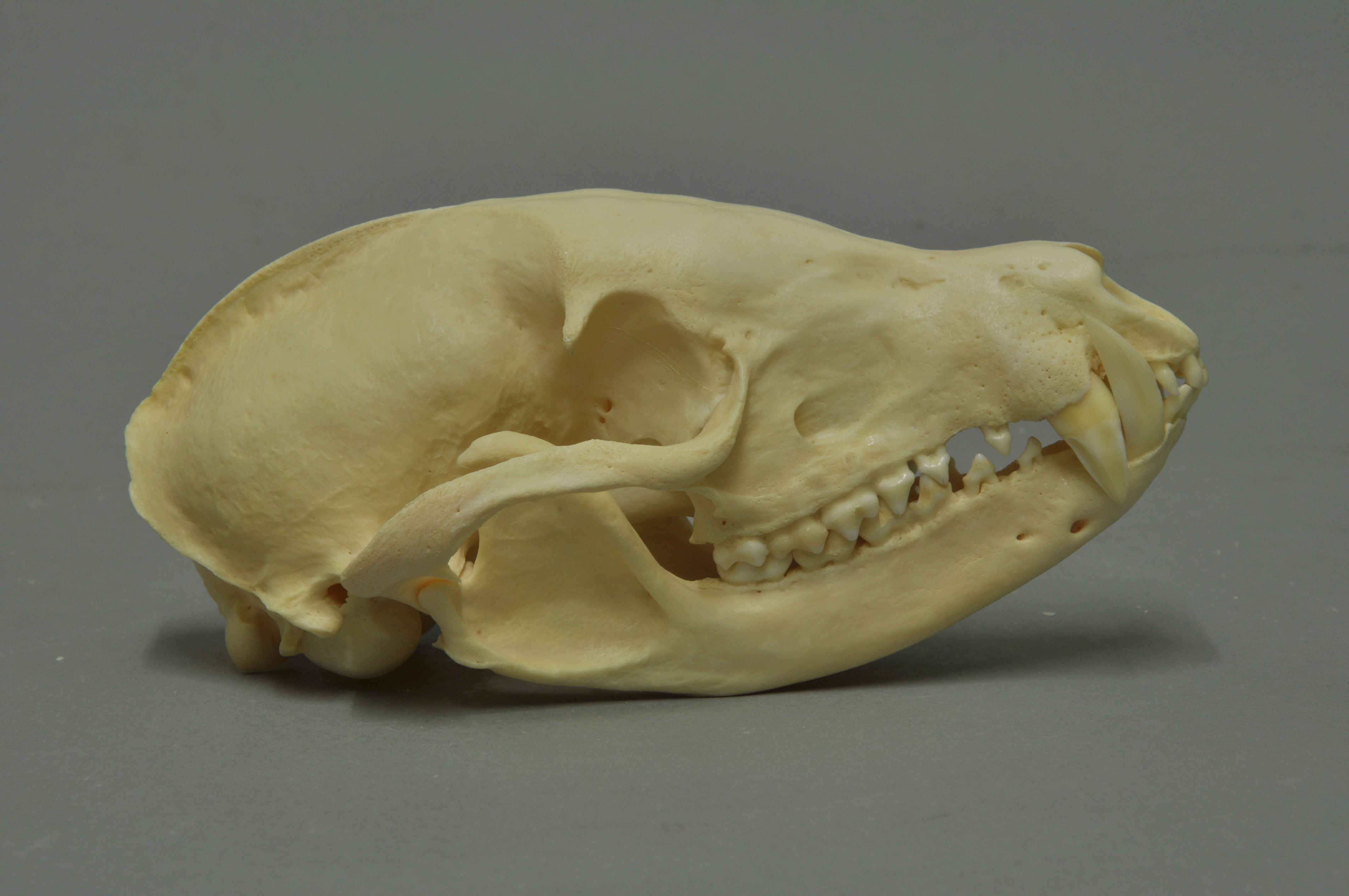 white-nosed coati Nasua narica , skull, Coll. Museum Wiesbaden